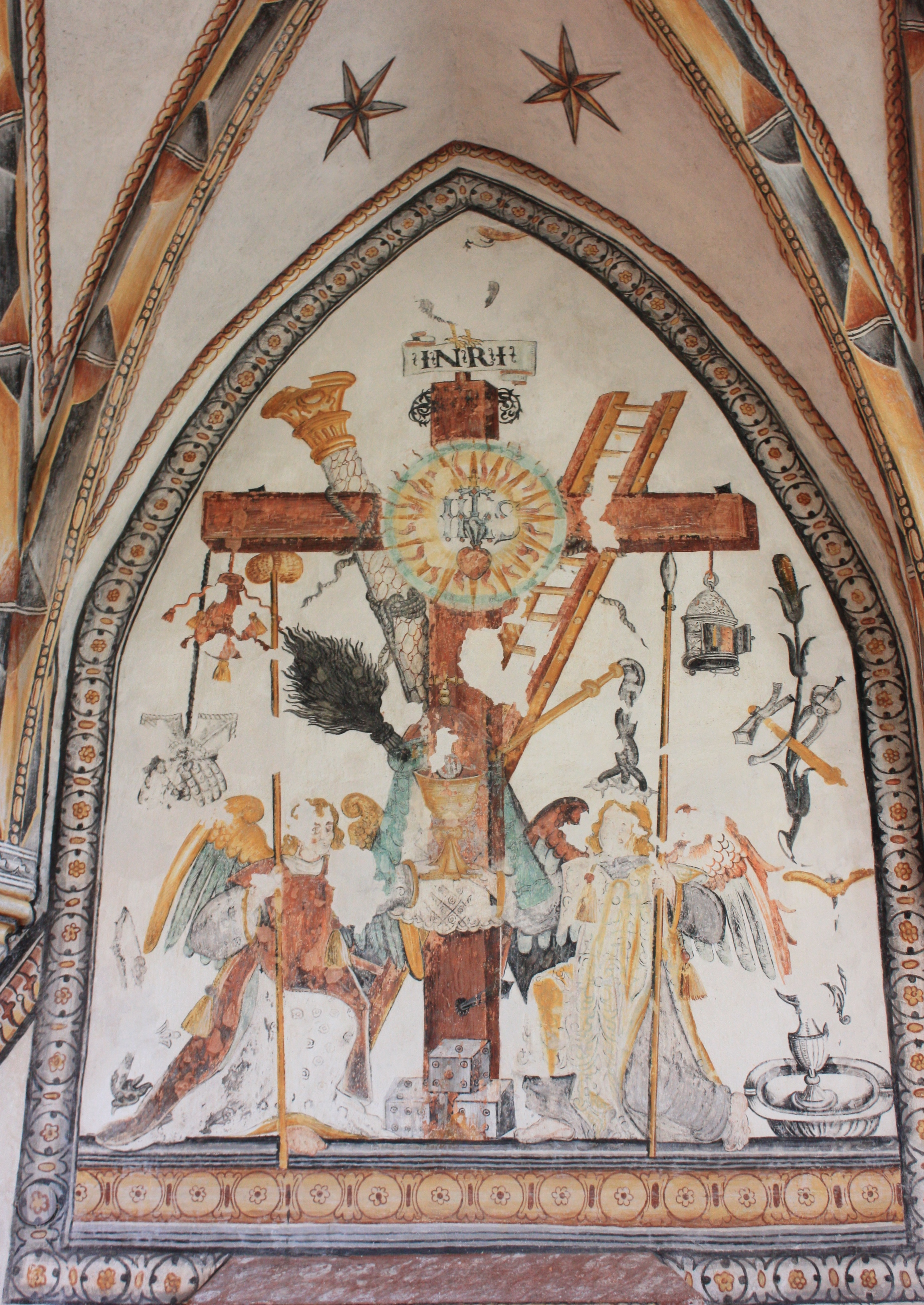 Catholic church in the village Weißbriach in the community Gitschtal: Fresco: Angel showing the Arma Christi